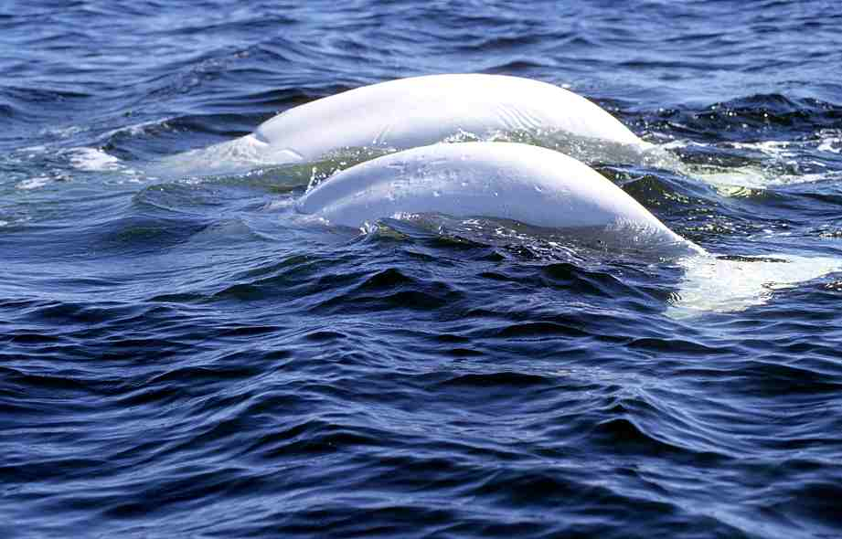 White Whales or Belugas (Delphinapterus leucas) in Churchill River near Hudson Bay (Canada).